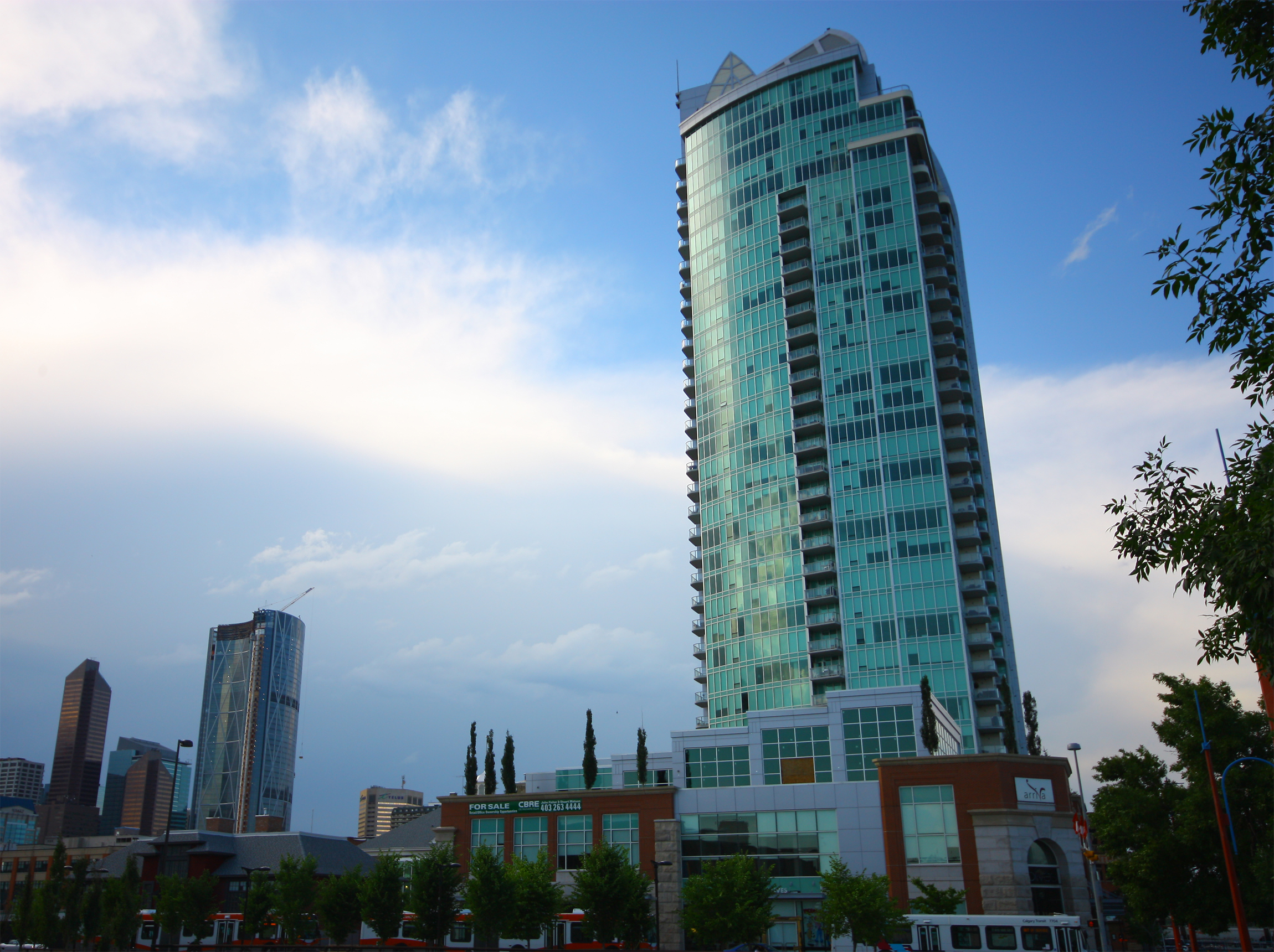 View of the Arriva 1 tower looking northward. The Bow skyscraper under-construction in background.